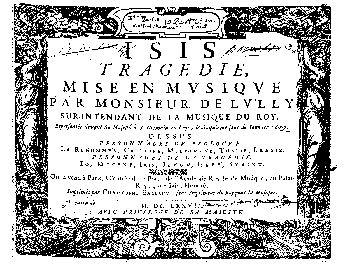 Isis, opera by Jean-Baptiste Lully. Separate part (dessus) title page, published 1677.